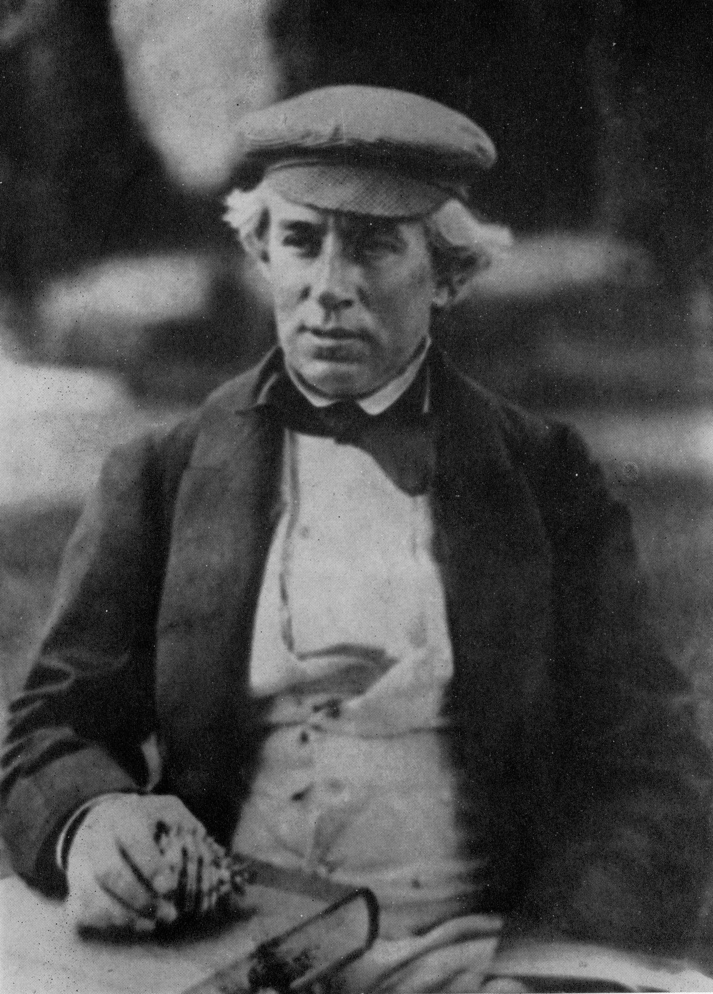 photo of British malacologist Lovell Augustus Reeve (1814-1865).